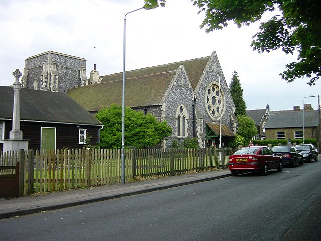 Church of All Saints, Murston. Originally 12th century, rebuilt in 1873 by William Burges. Large plate tracery rose window in west gable. The church stands in the north east corner of the square.